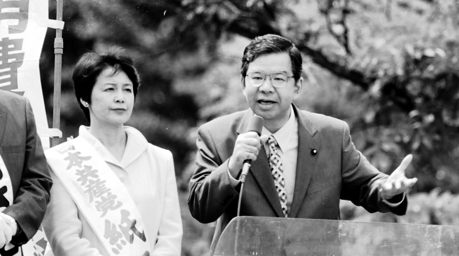 Kazuo Shii, President of the Japanese Communist Party, made a campaign speech for Satoshi Miyauchi and Tomoko Kami, Candidates for Members of the House of Councillors, in Hokkaidō on July 18, 2001.